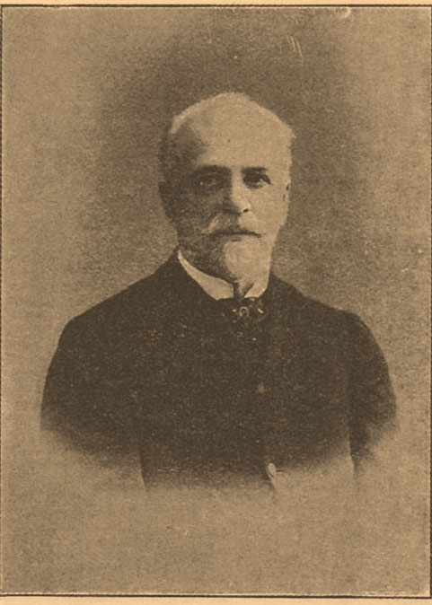 Illustration from Brockhaus and Efron Encyclopedic Dictionary (1890—1907)